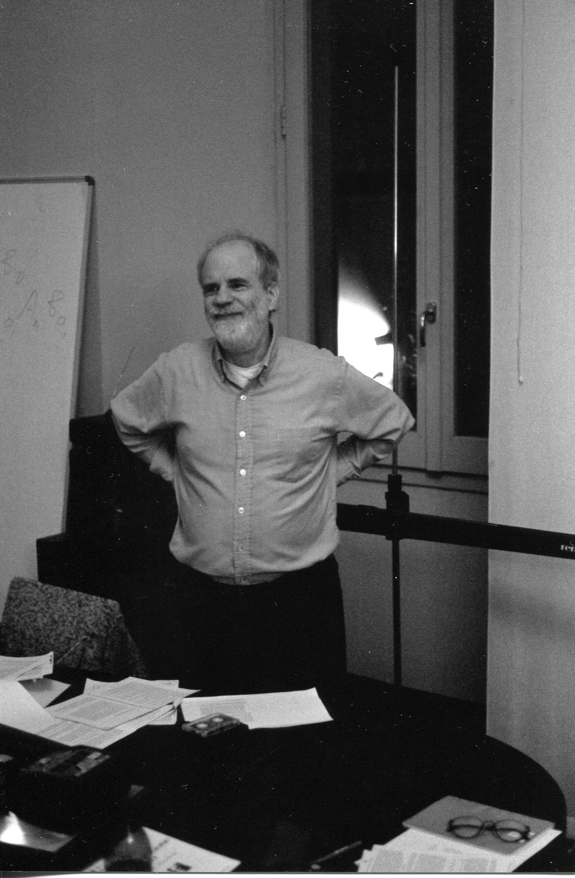 Saul Kripke during a seminar at the University of Bologna, Italy, around 2005